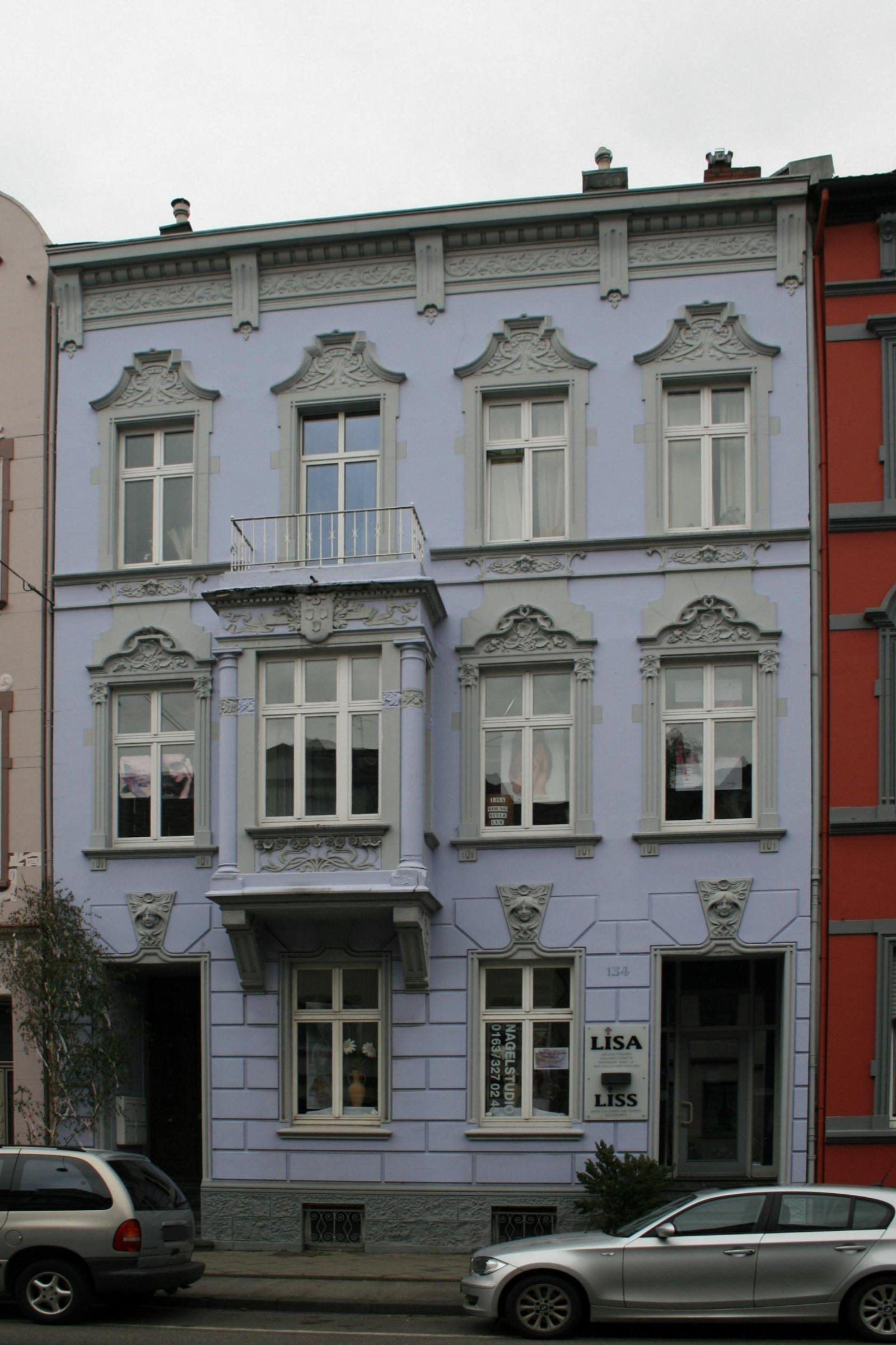 Cultural heritage monument No. V 004 in Mönchengladbach